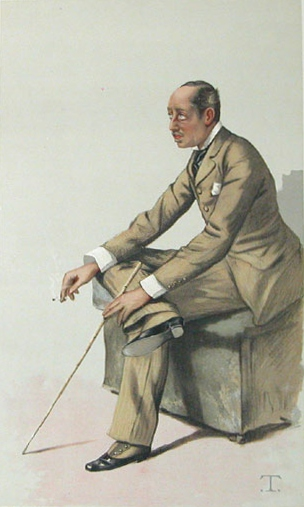 Caricature of The Marquis of Blandford. Caption read "B".